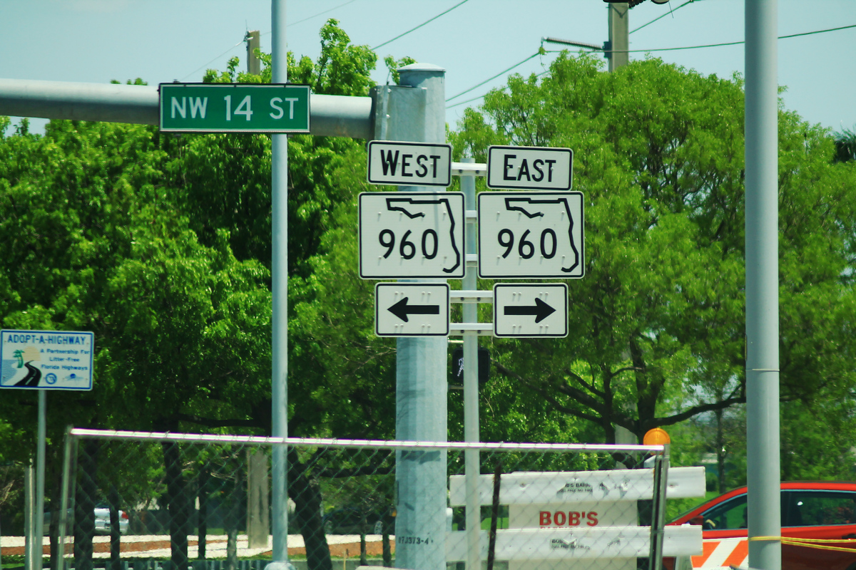 One of Florida's newest state roads (posted in mid-2015), this route lines the northern side roads of the Dolphin Expressway. Located near Miami International Airport along Le June Road (FL 953).